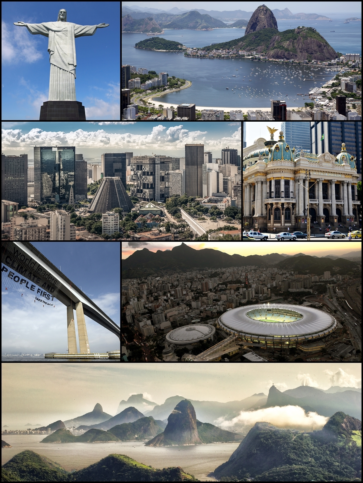 Photo montage of the city of Rio de Janeiro, Brazil. From the top, left to right: Christ the Redeemer, Sugarloaf Mountain, Downtown, Municipal Theatre, Rio–Niterói Bridge, Maracanã Stadium, and panoramic view of the city from Niterói.